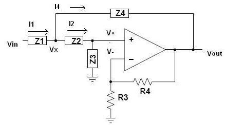 Sallen-Key filter generalized